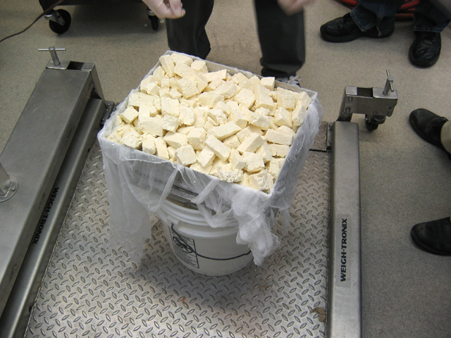 Placing chedder cheese curds into molds for pressing